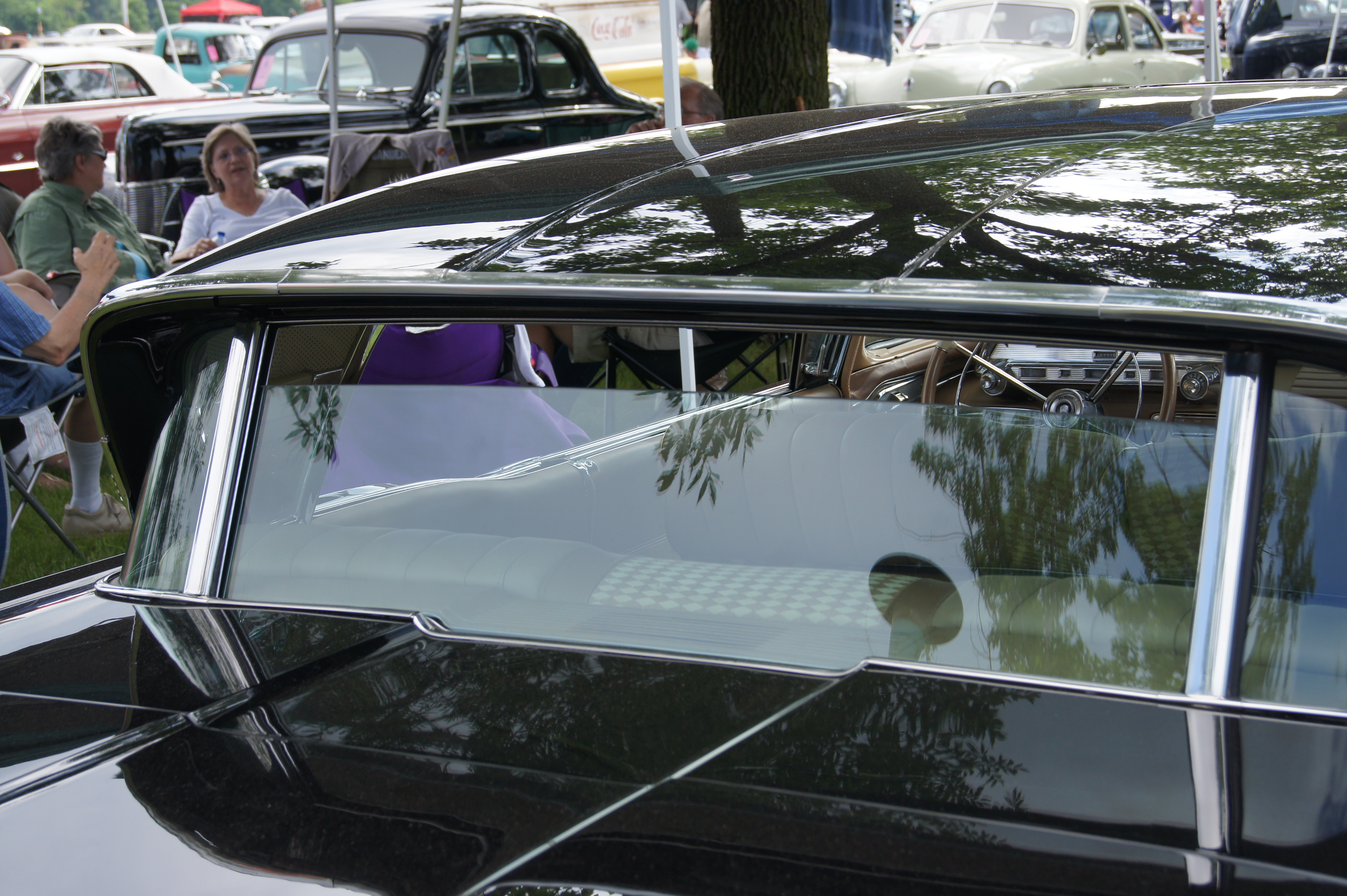 MSRA “BACK TO THE 50′s” 40th ANNIVERSARY June 21-23, 2013 State Fairgrounds St. Paul Minnesota More Car Pictures